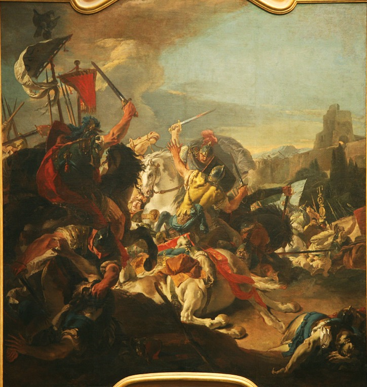 The battle has been identified tentatively as the great vistory of Gaius Marius over fierce Teutonic tribes in Lombardy in 101 B.C. The tribes of the Cimbri had crossed the Alps near Trent and invaded the Veneto, whose mild climate and delicacies reputedly sapped their strengh. Their defeat saved Rome from conquest. The picture is from a series of ten canvases painted about 1725-1729 to decorate the main room of the Ca'Dolfin, Venice.